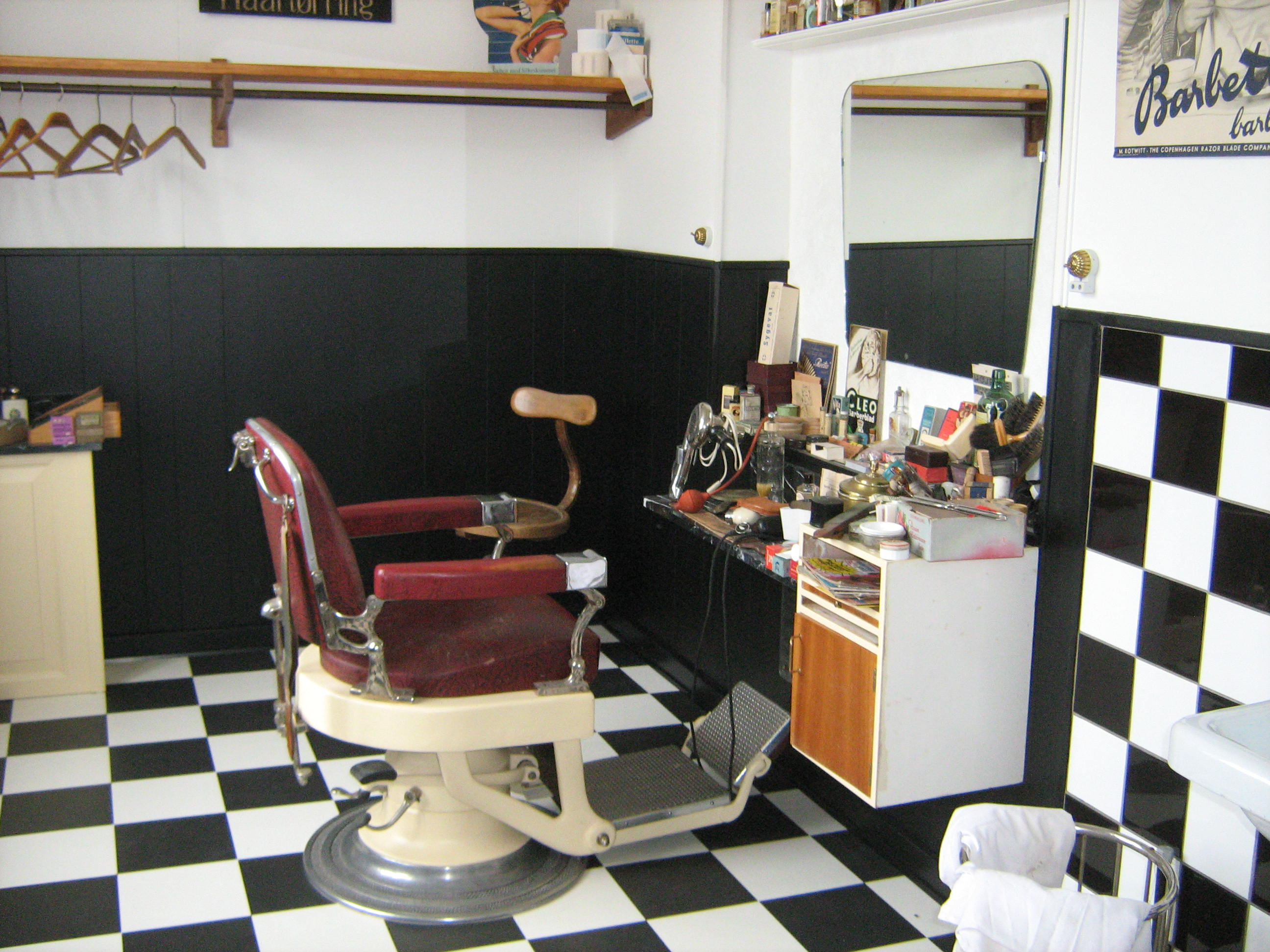 Thorsvang Dansmarks Sammlermuseum, Møn: barber's shop